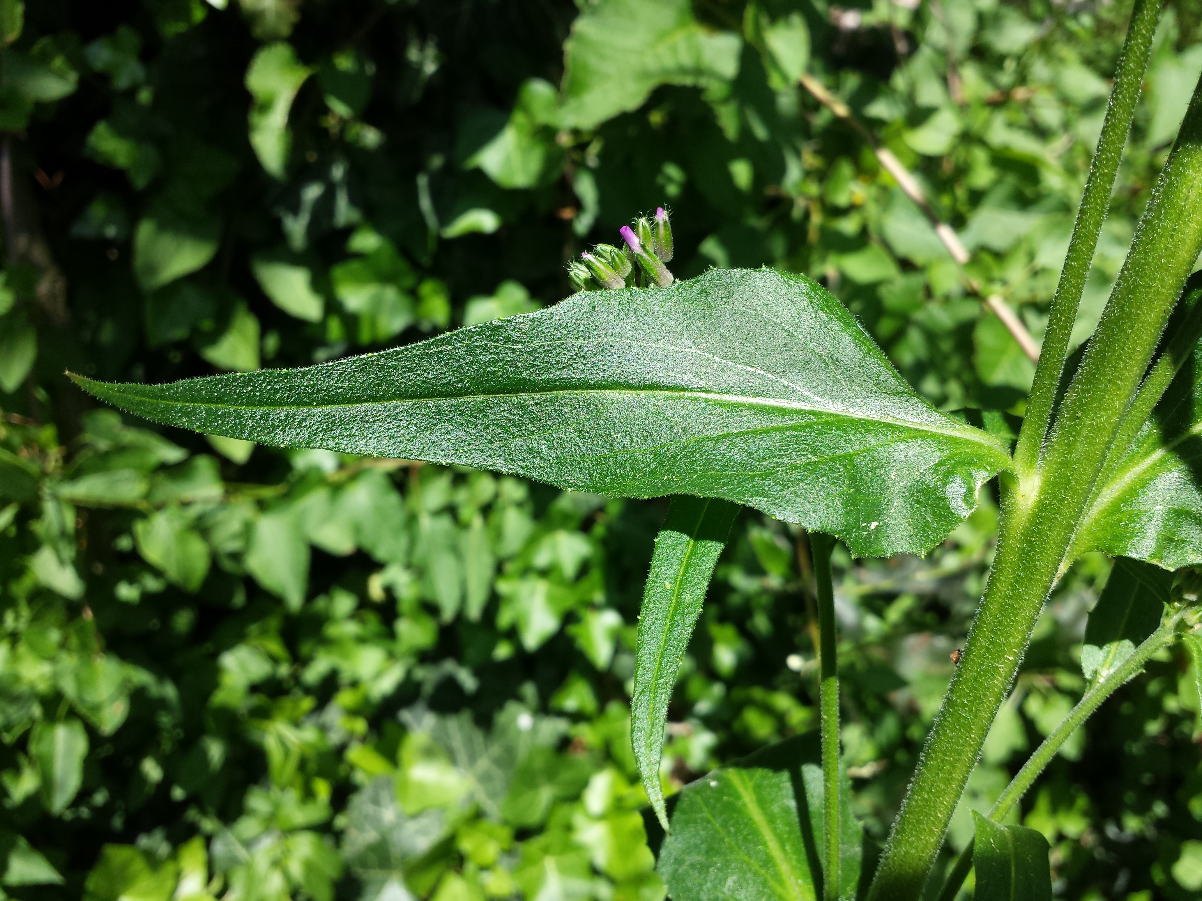 Stipe with leaves Taxonym: Hesperis matronalis subsp. matronalis ss Fischer et al. EfÖLS 2008 ISBN 978-3-85474-187-9 Location: near Niederhollabrunn, district Korneuburg, Lower Austria - ca. 350 m a.s.l. Habitat: garden